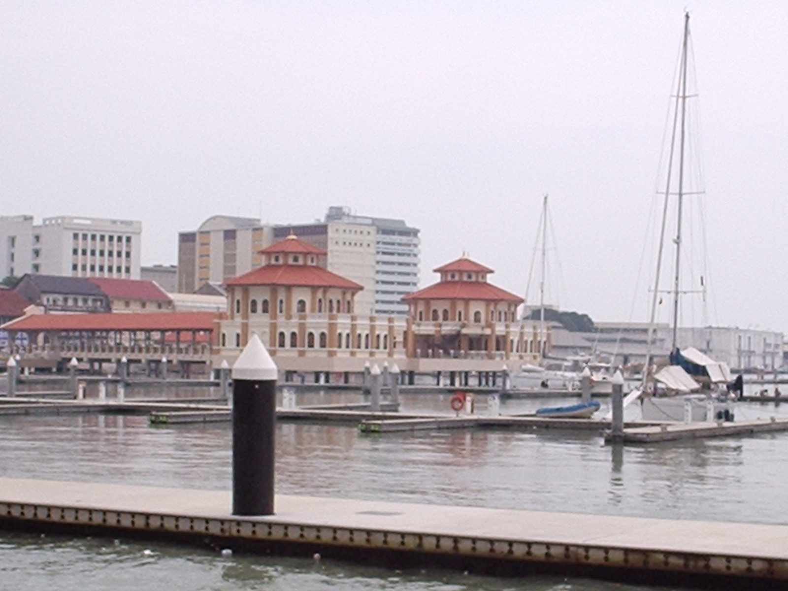 own work